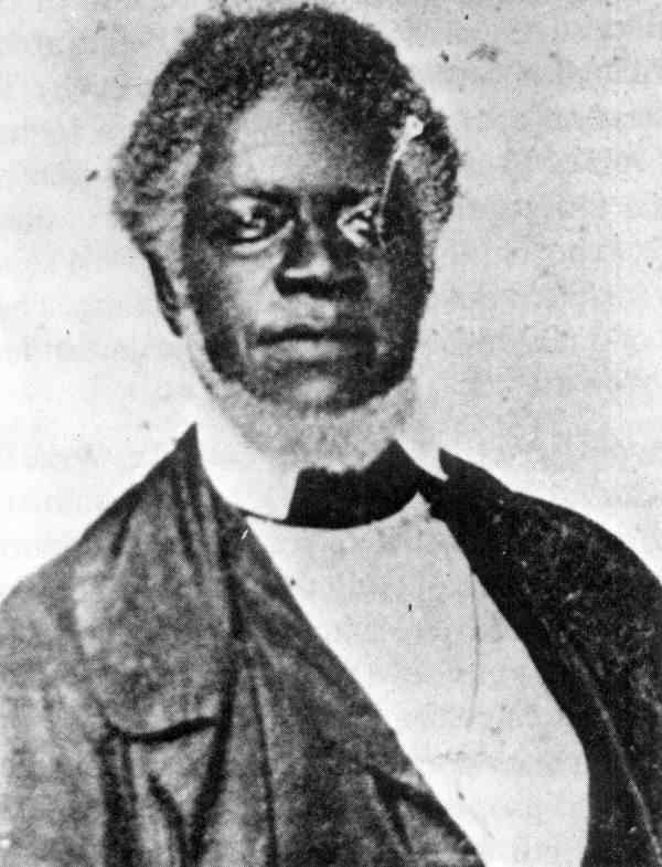 URL: Subject died in 1883, so the image must have been created, and most likely first published well before that time, meaning it's copyright has long since expired.